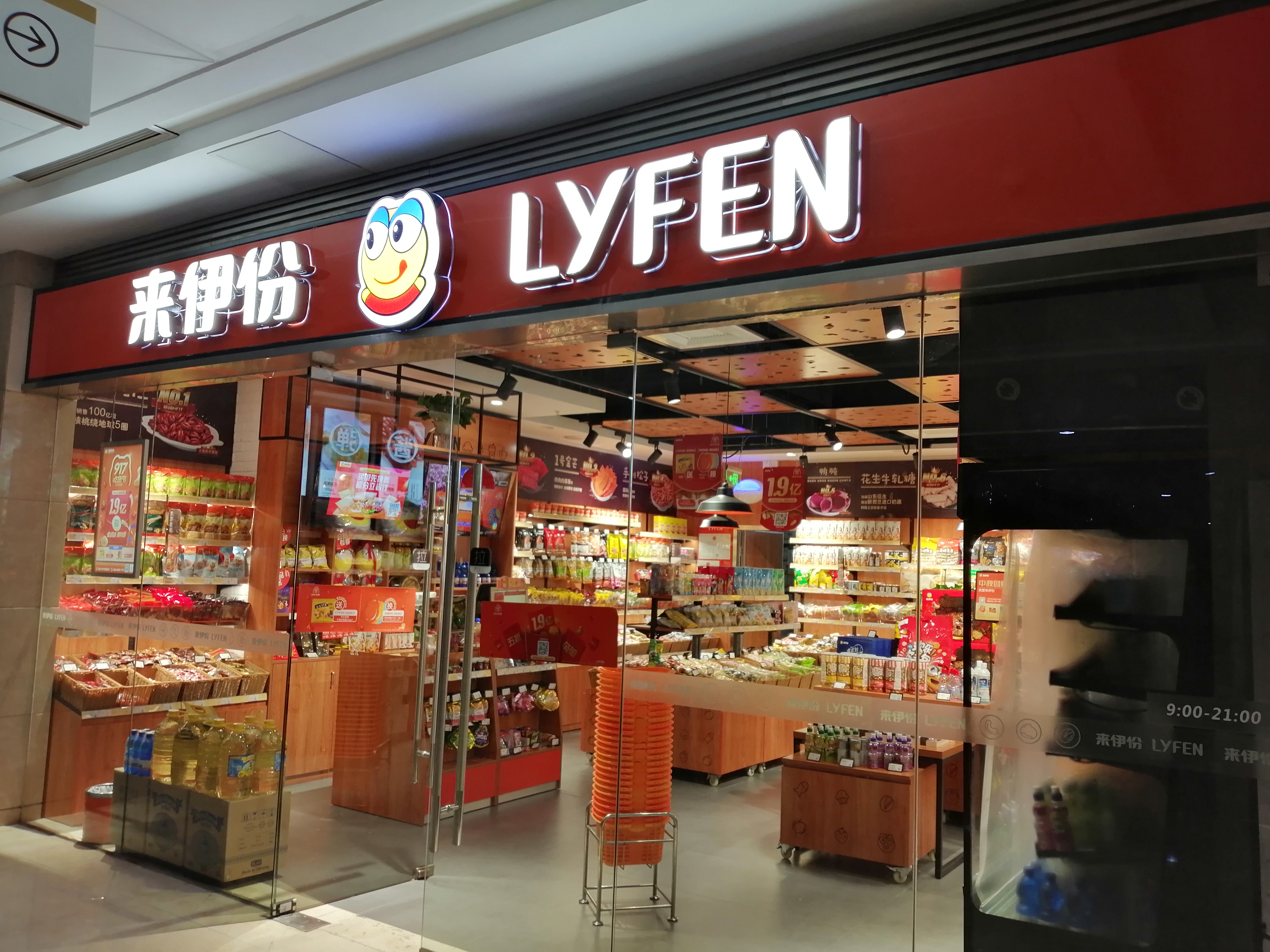 A Lyfen Store at Xinghai Square, Suzhou Industrial Park, Jiangsu, China. 中文（中国大陆）: 来伊份位于苏州工业园区星海广场的门店